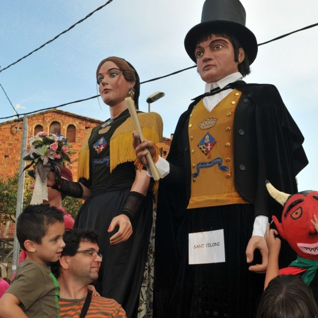 Gegants of Sant Celoni